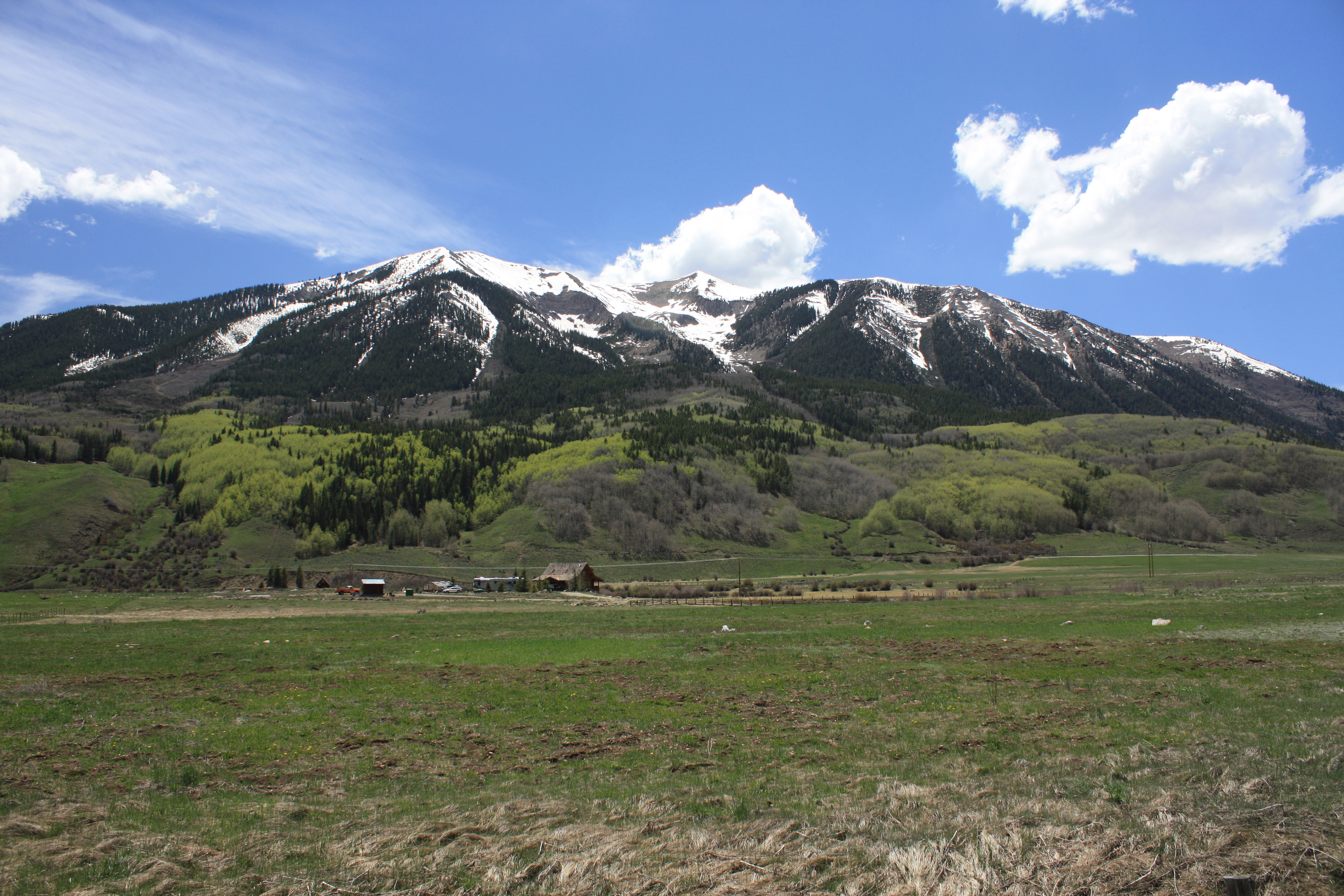 Whetstone Mountain taken from along Highway 135 just southeast of Crested Butte, Colorado. The mountain is in the West Elk Mountains.